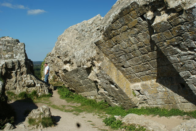 Corfe Castle Ruins, Dorset Corfe Castle was destroyed during the English Civil War period. The ruins provide an amazing landmark. The man standing in this photograph demonstrates that the wall really is at a drunken angle!